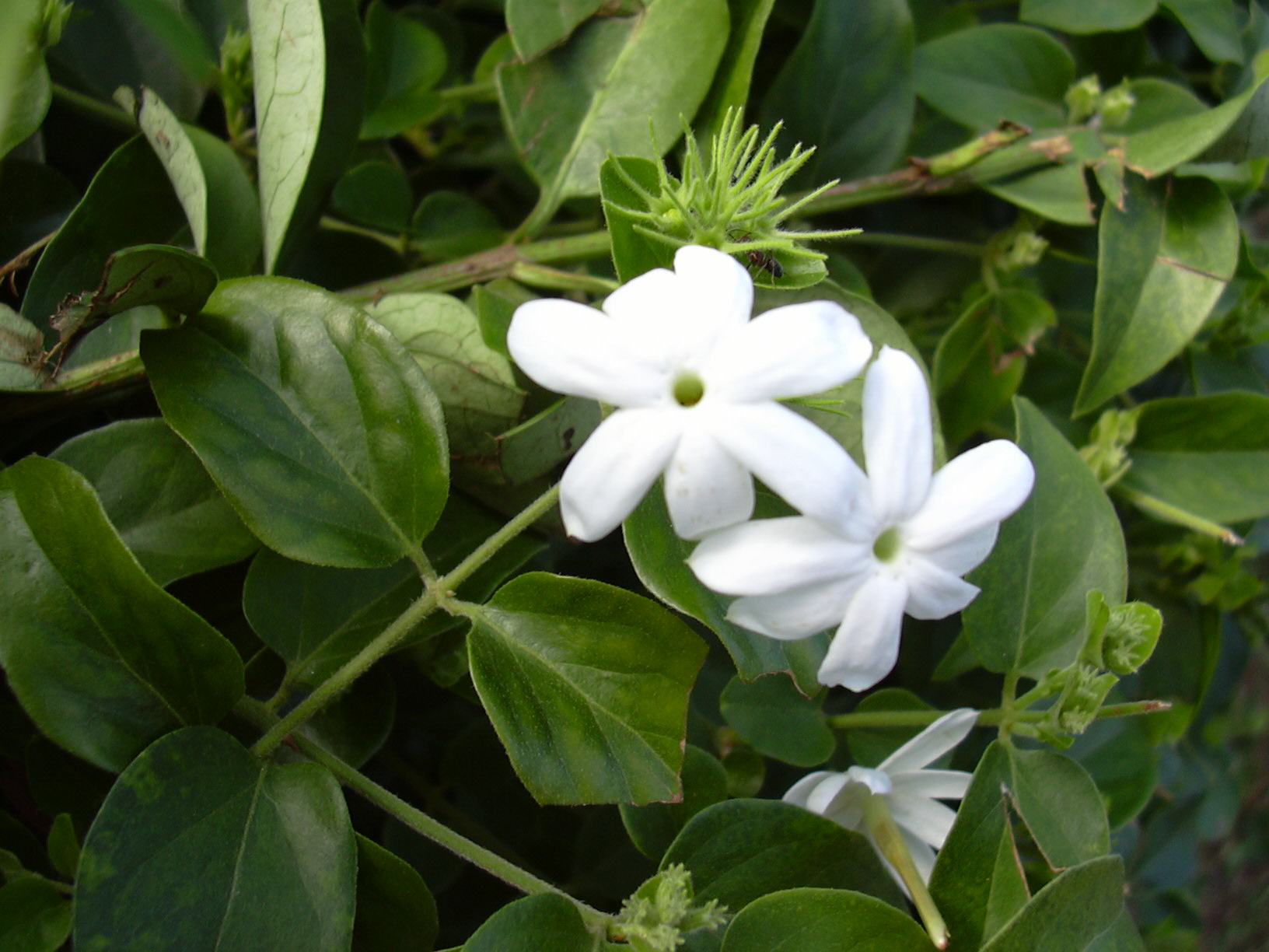 Jasminum multiflorum (flowers). Location: Florida, Sarasota